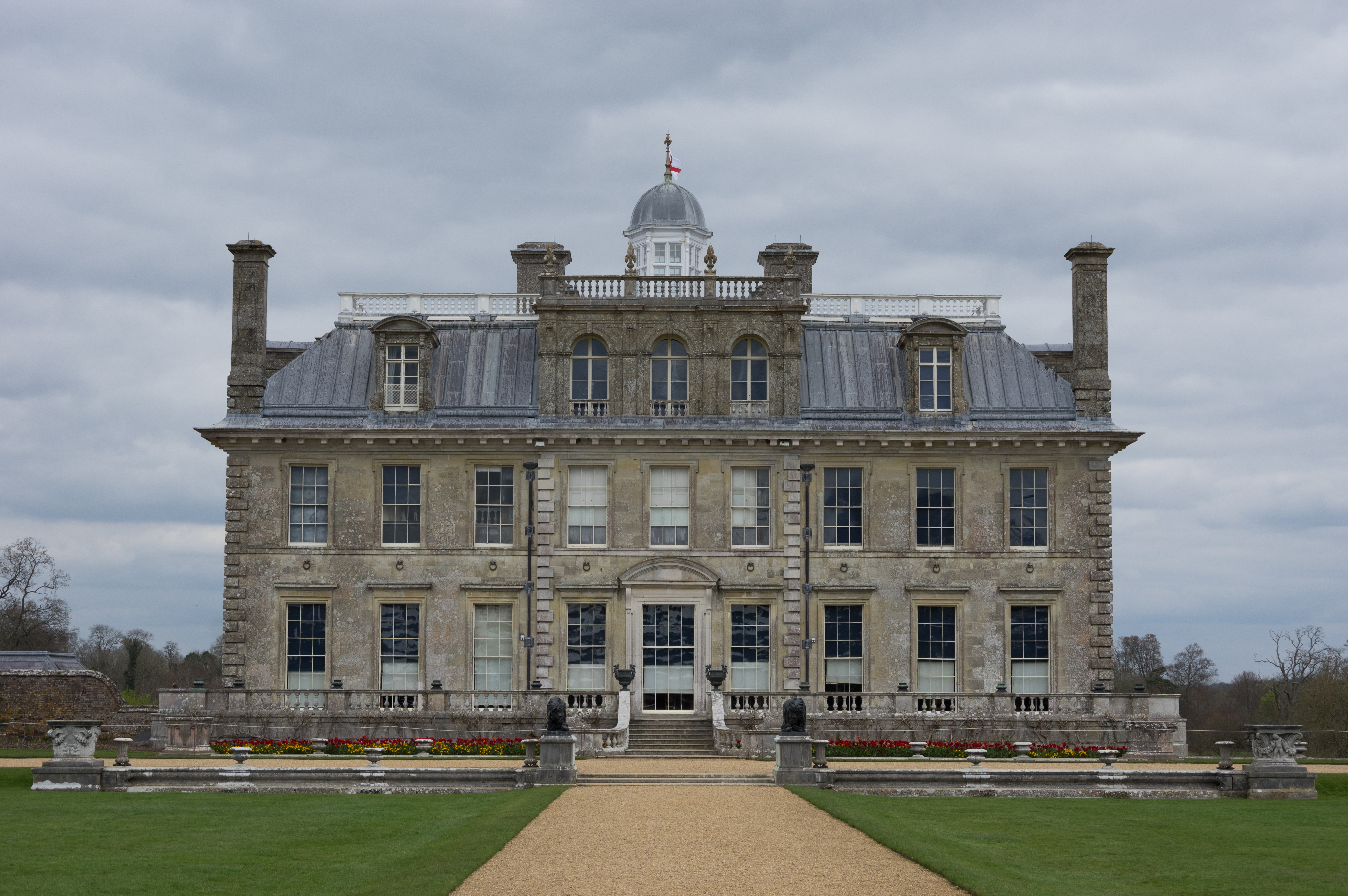 Kingston Lacy, the castle